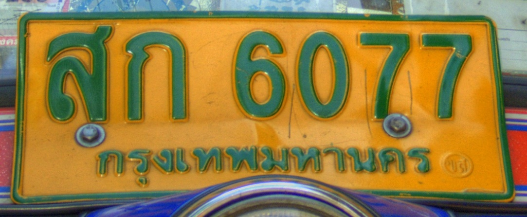 Licence plate of a Thai tuk-tuk taxi